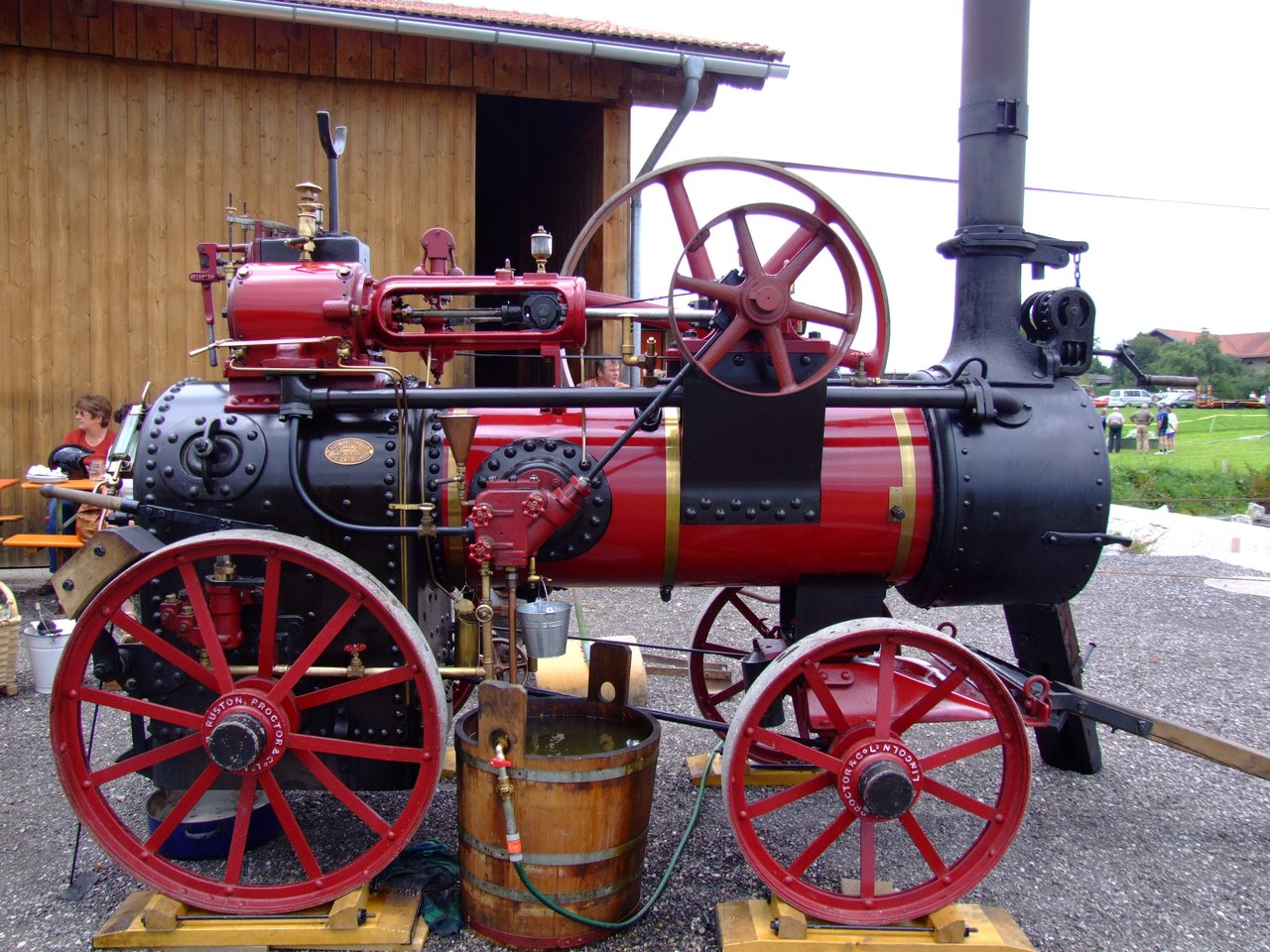 Quelle: selbst fotografiert, 08/2006 Fotograf: Späth Chr. Ruston, Proctor & Co Ltd 4 PS 8ATM 1909 Lincoln-England